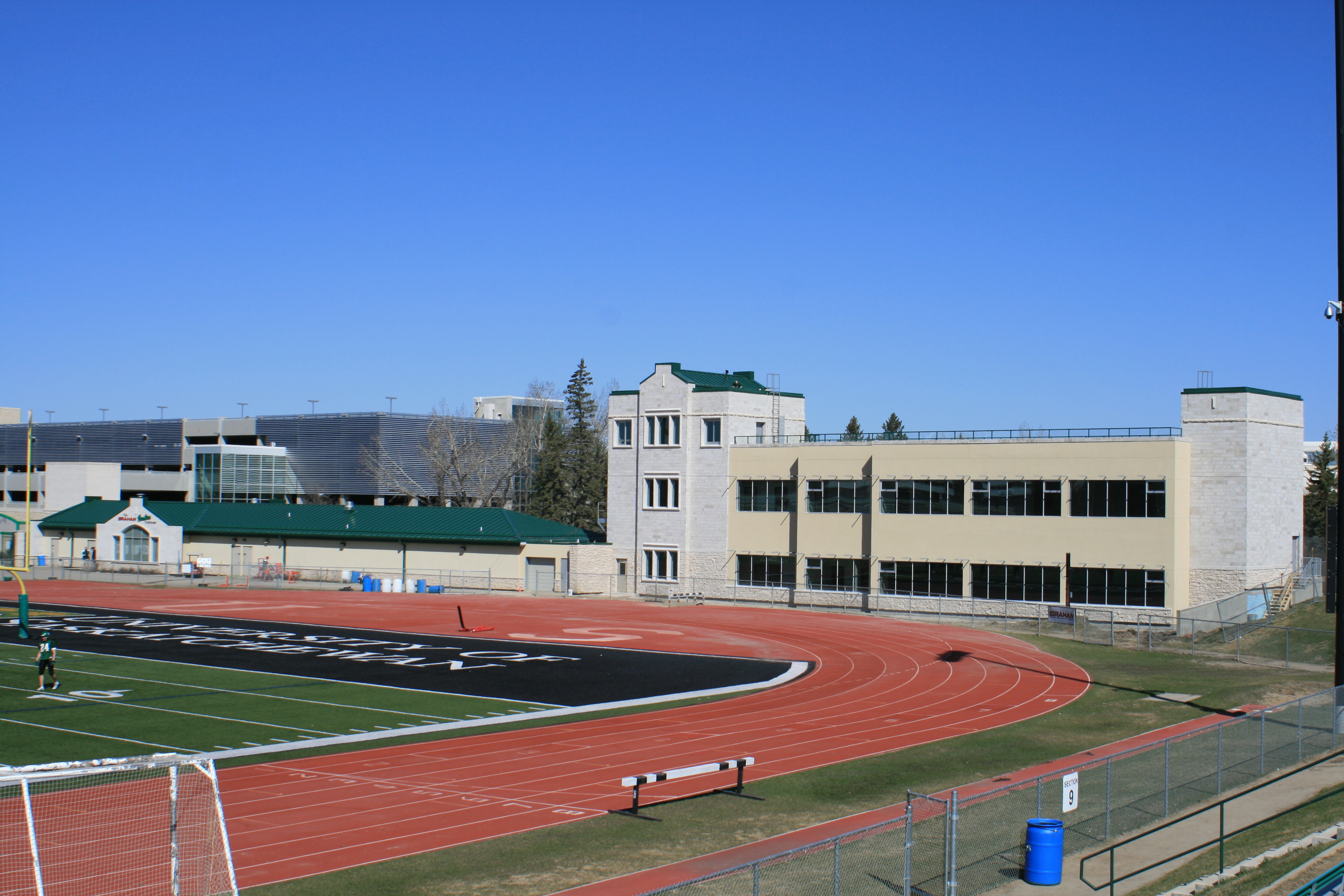 The Graham Huskies Clubhouse at Griffiths Stadium in Saskatoon, Saskatchewan.